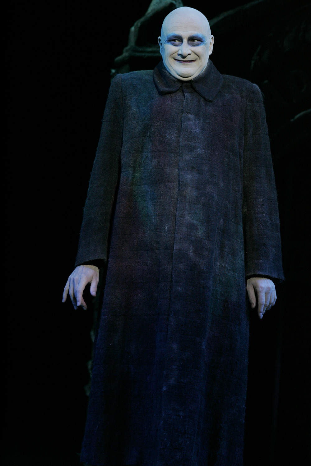 The Addams Family Media Event